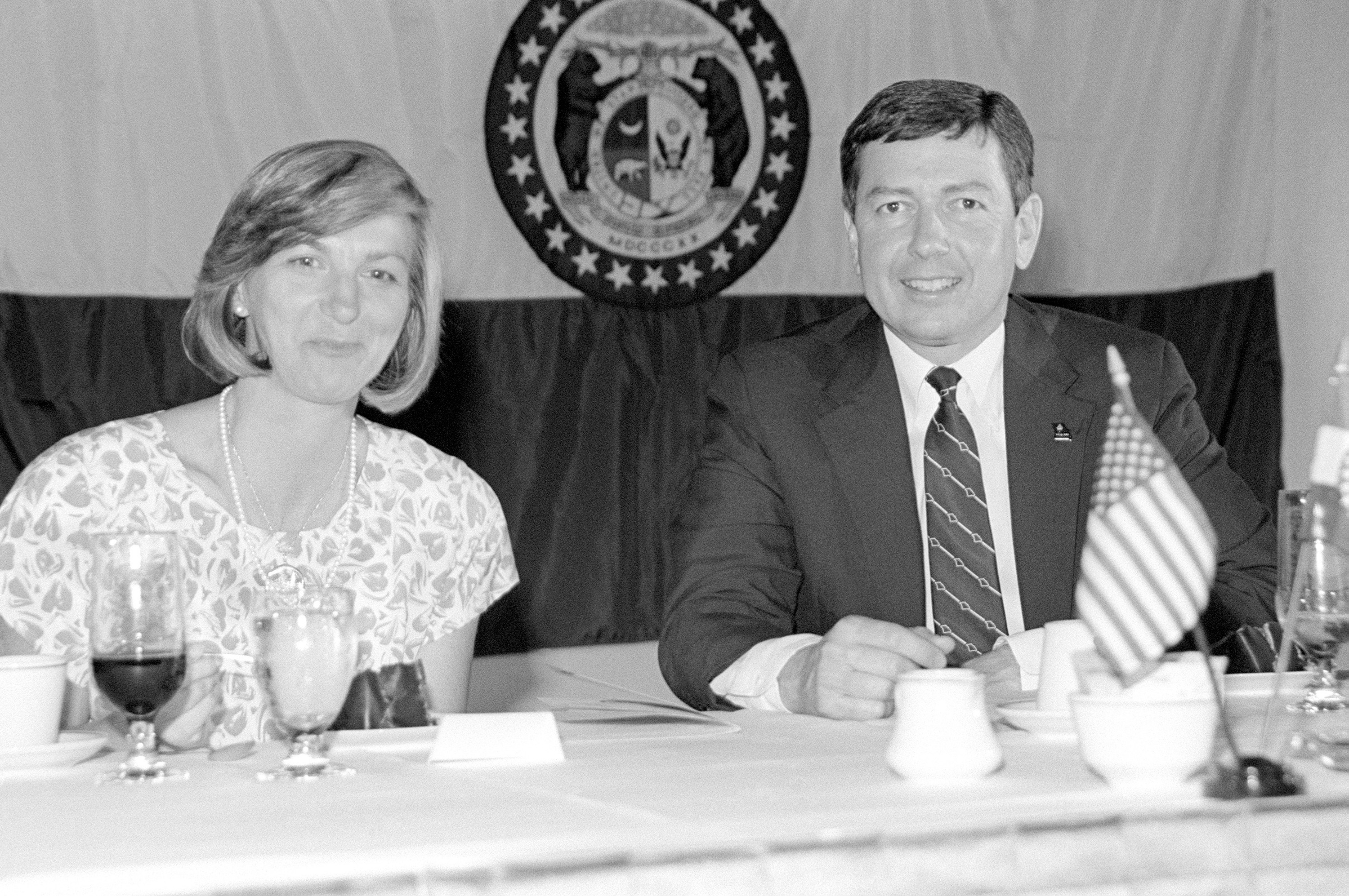 Missouri Governor John Ashcroft attends a post-recommissioning dinner for the battleship USS MISSOURI (BB 63), 5/10/1986